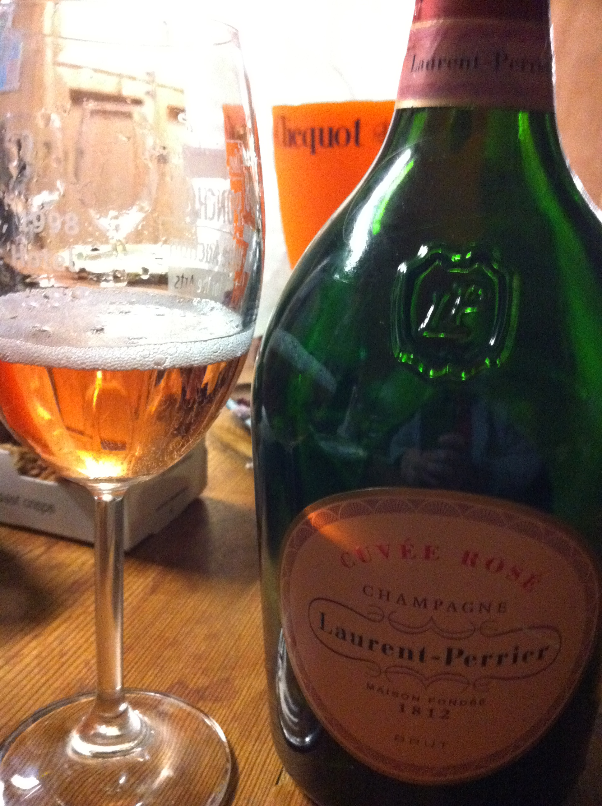 Glass of rose Champagne from Laurent Perrier